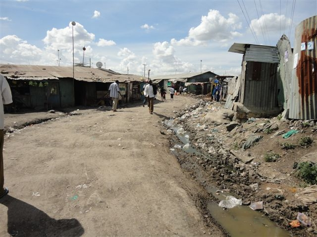 Photo by Sustainable Sanitation Design regional representative Emery Sindani - 4th Q 2010